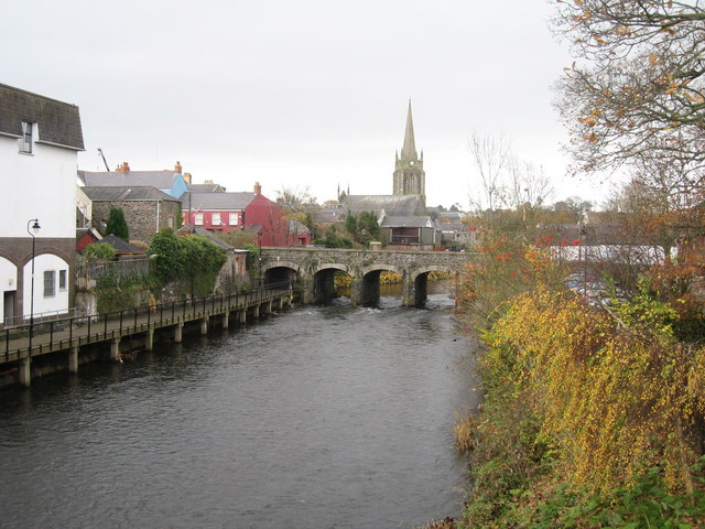 Bridge over Six Mile Water, Antrim Bridge Street bridge over Six Mile Water, Antrim. The octagonal spire of All Saints Church can be seen in the background, built in 1816, it is the most prominent feature of the Antrim skyline.